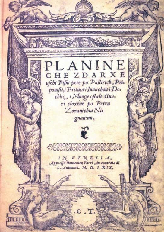 Petar Zoranić "Planine" 1569. First mountaineering book in the world.